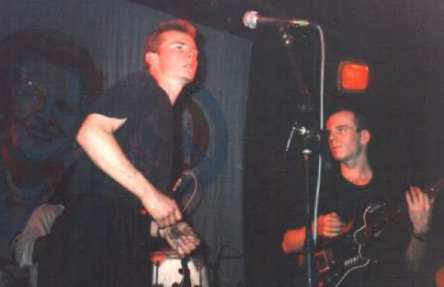 Flux at ULU 1986 pic by Graham Burnett